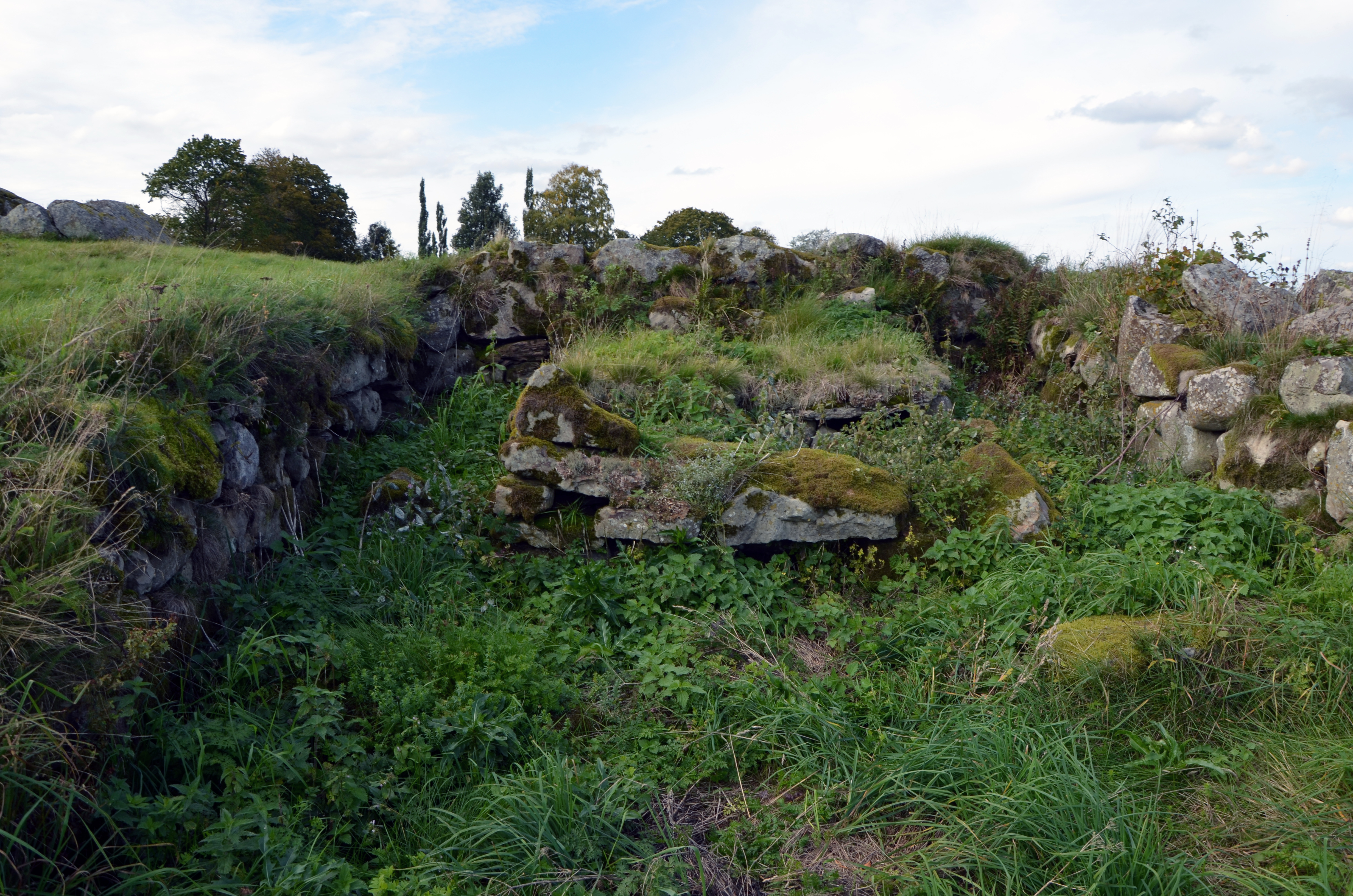 Foundation of an old flax drying house or flax kiln near the passage graves at Hallabacken (RAÄ number Vårkumla 14:1) in Vårkumla Parish, Frökind hundred, Falköping municipality, former Skaraborg county, Västergötland, Västra Götaland county, Sweden.